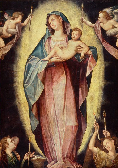 La Virgen de la Purificación o Candelaria by Bernardo Bitti (1548—1610) in St. Peter's Church in Lima